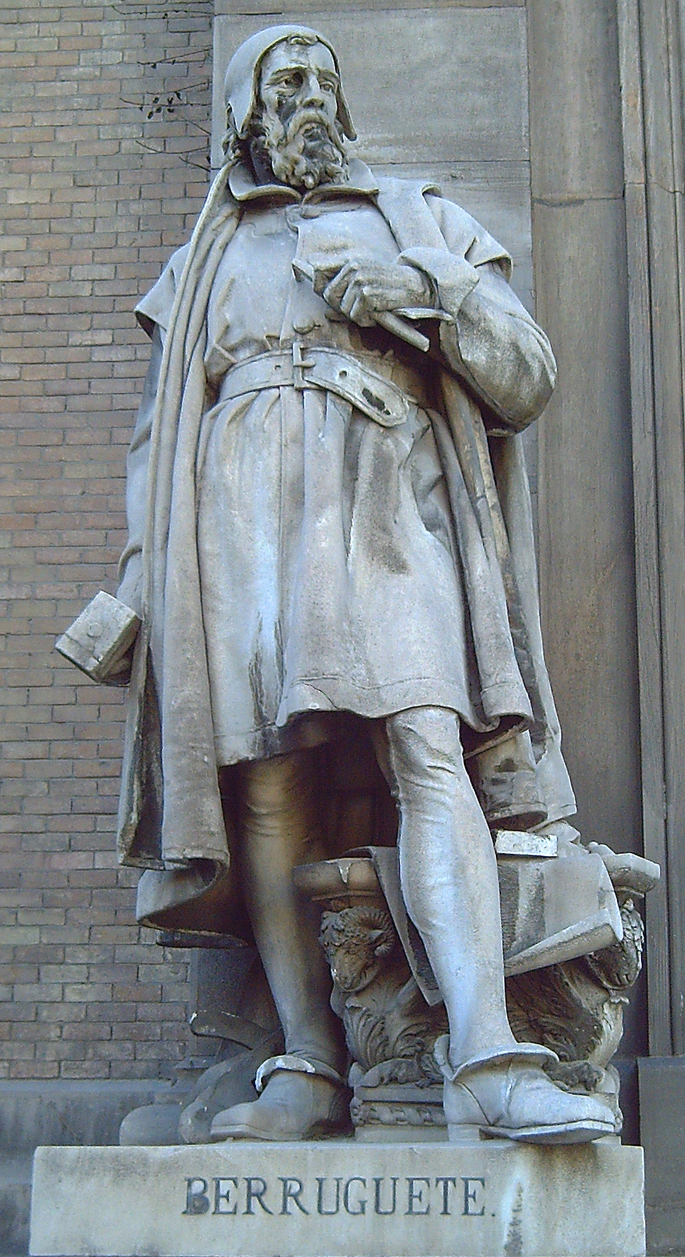 Statue of Alonso Berruguete (c.1490–1561) next to the entrance of the National Archaeological Museum of Spain, in Madrid. Sculpted in Italian white marble by José Alcoverro y Amorós (1835–1910) in 1892.